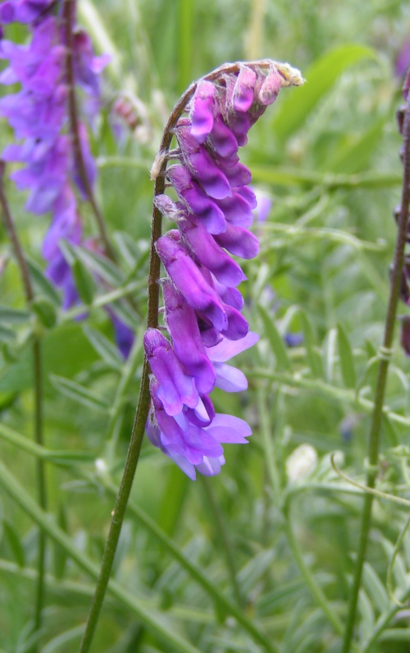 Tufted vetch (Vicia cracca). Photo by sannse, Walton-on-the-Naze, Essex, 19 June 2004